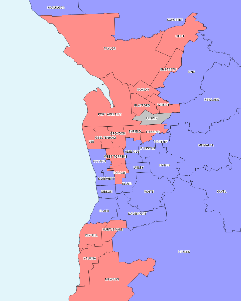 Outcome of 2018 South Australian state election in inner metropolitan Adelaide. Electoral districts are coloured by winning party: Blue = Liberal, Red = Labor, Grey = Independent.